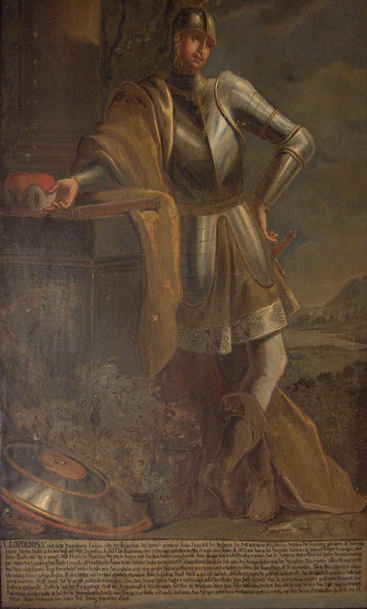 Leopold V, Duke of Austria (1157-1194)